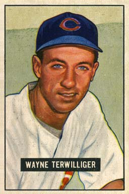 Major League Baseball player Wayne Terwilliger in 1951.